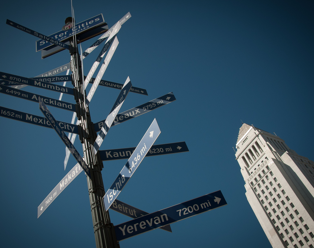 Los Angeles City Hall and sister cities signs.